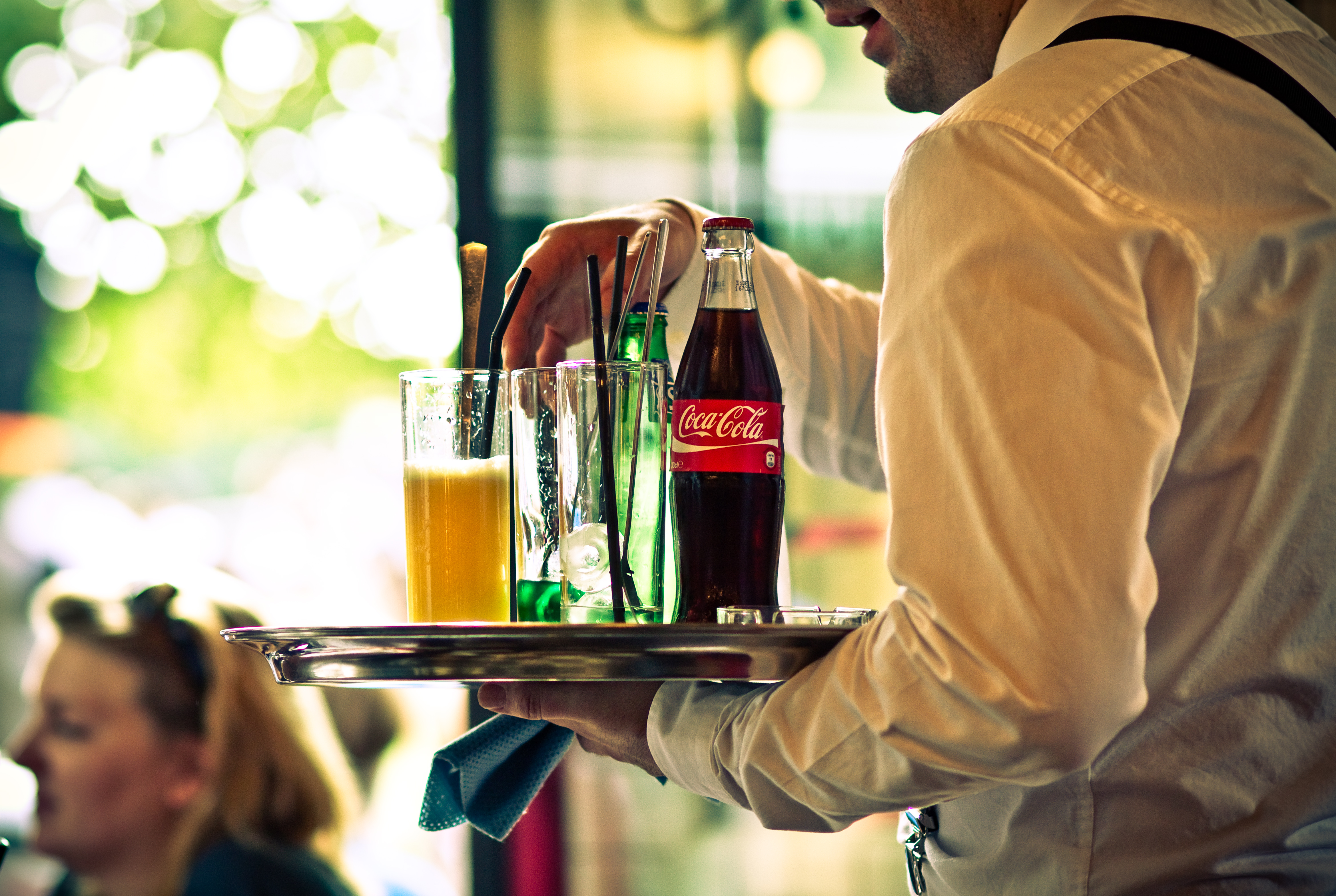 Waiter in a café in Paris.